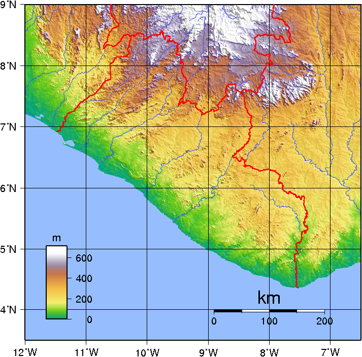 Topographic map of Liberia. Created with GMT from SRTM data.